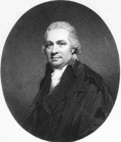 Scan of an old picture of Daniel Rutherford